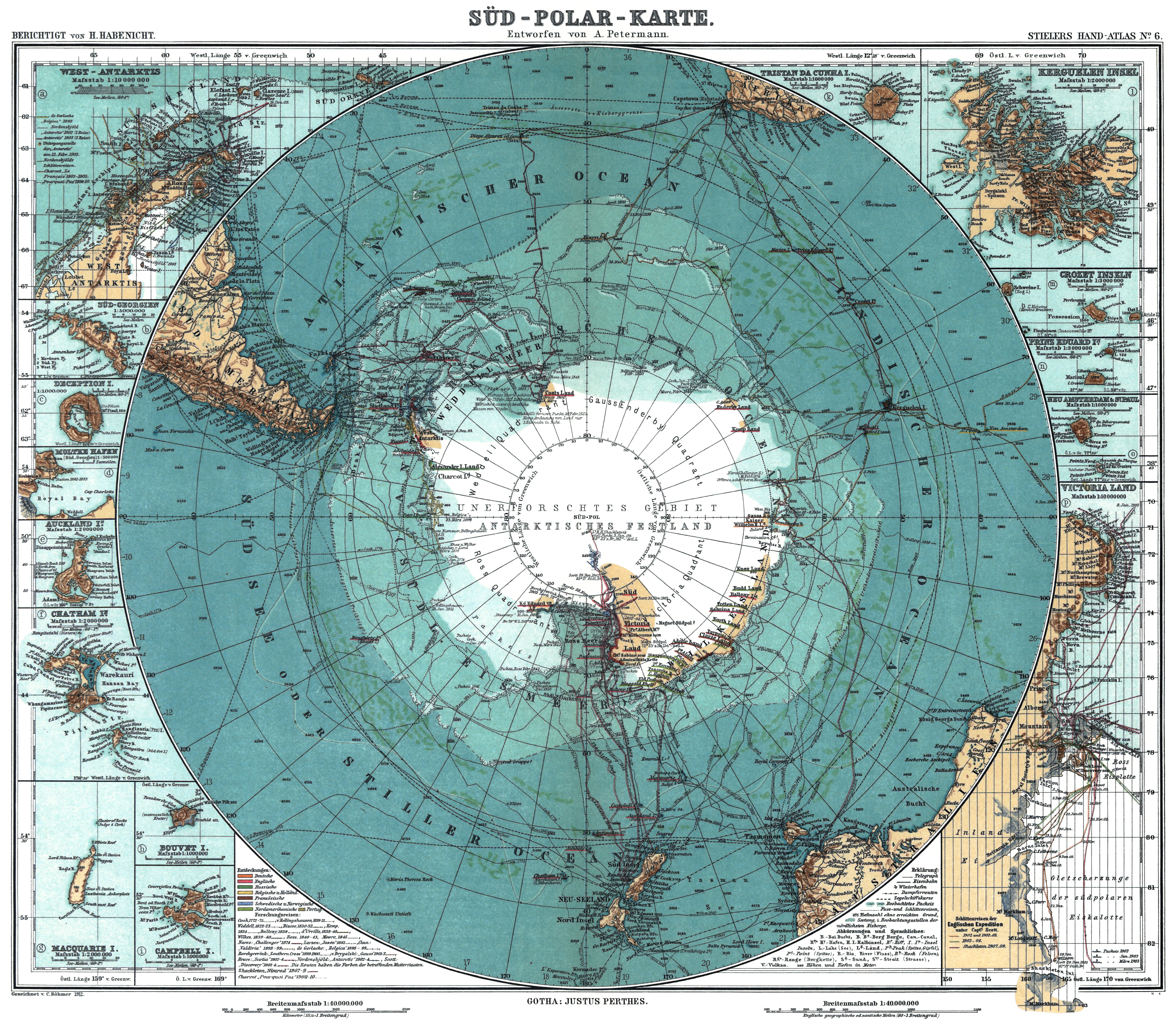 Map of Antarctica. Scale [ca. 1:40,000,000]. Col., 34 × 41 cm.